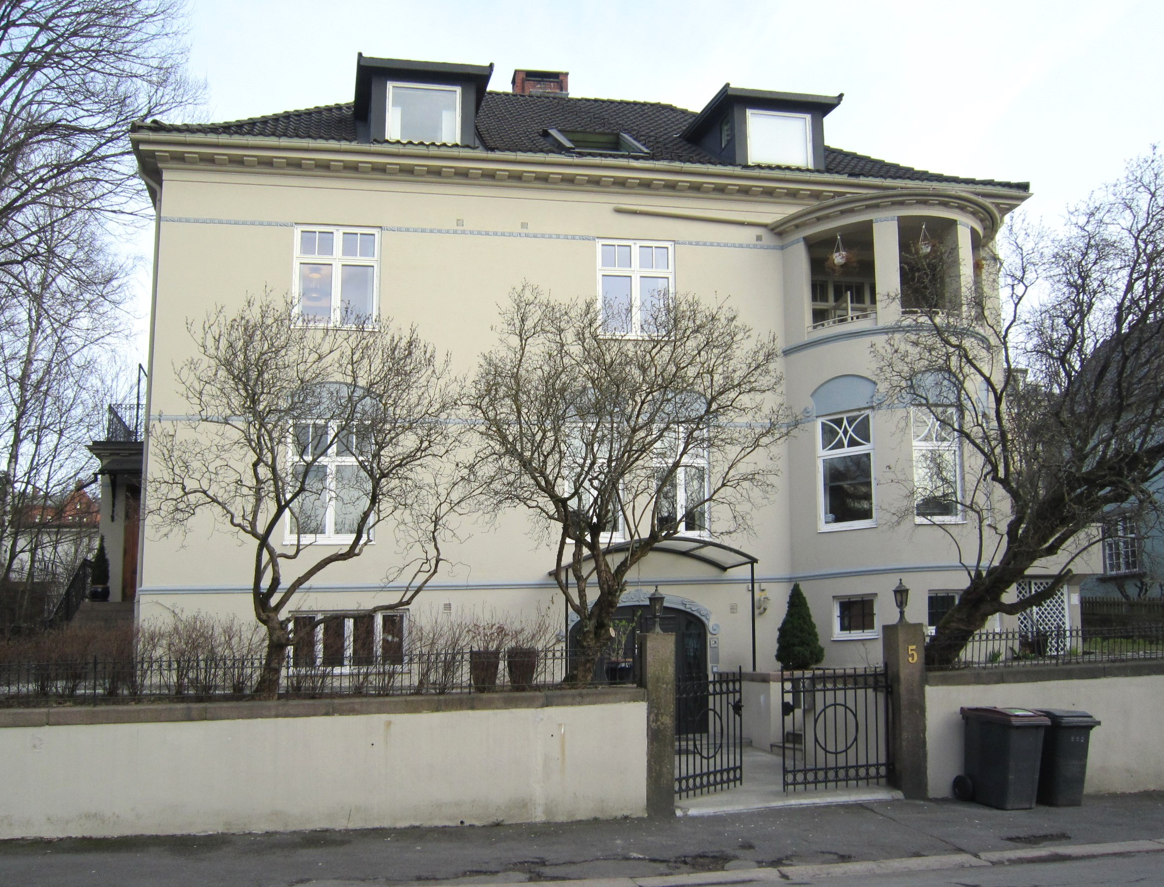 The Afghan embassy at Gange-Rolvs gate 5, Oslo